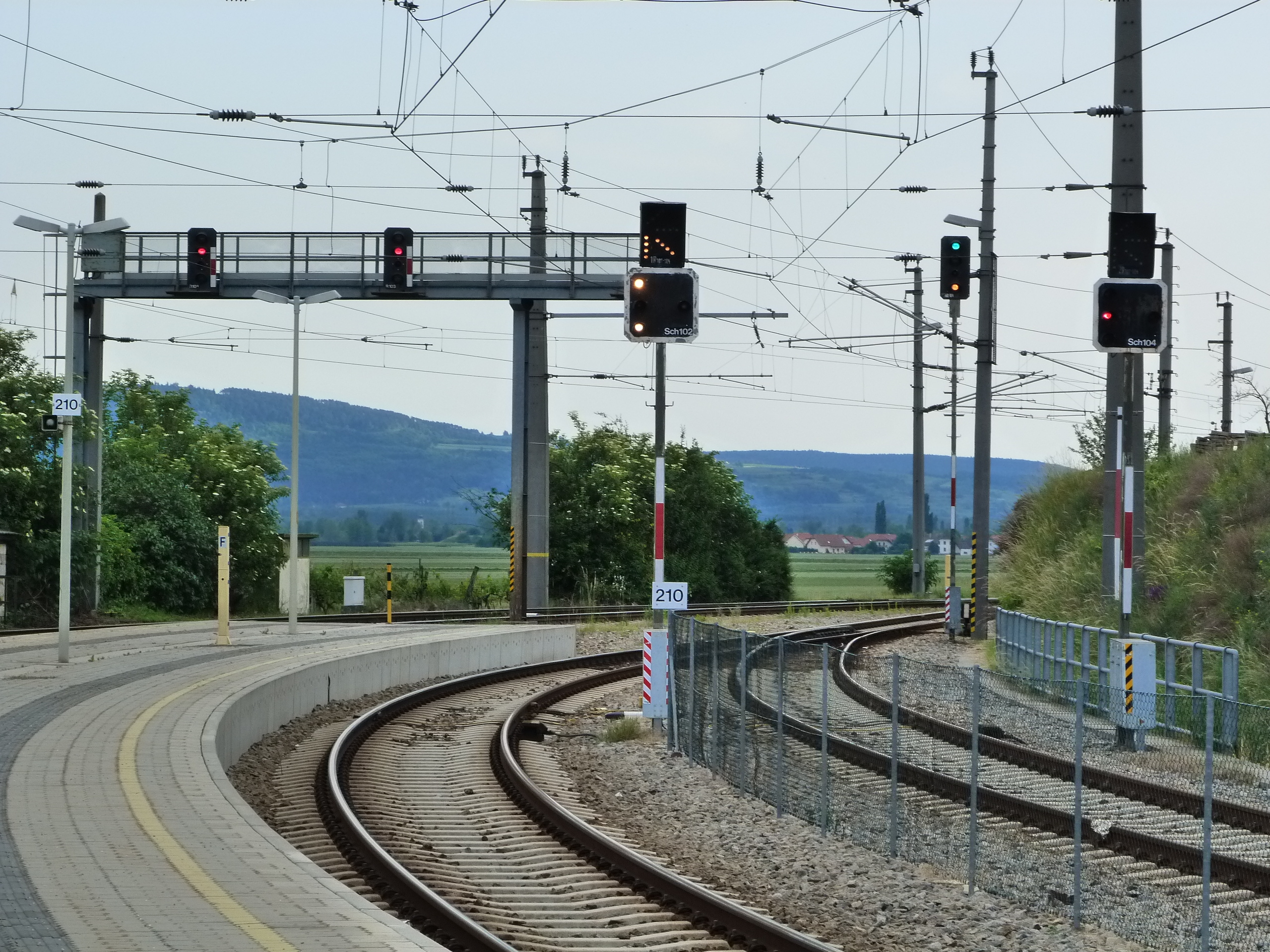 Signals R105, R103, Sch102 with 1R102-104, R102-104, and Sch104 with 2R102-104 at Hadersdorf am Kamp, Austria